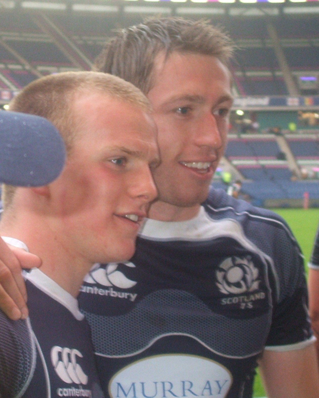 Jim Thompson (r) and Heriot's team mate Chris Fusaro after competing for Scotland at Murrayfield in the 2008 Edinburgh 7s.